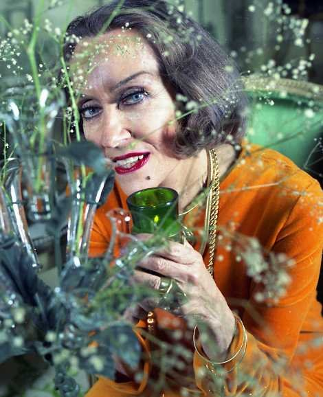 portrait of Gloria Swanson in her apartment in New York